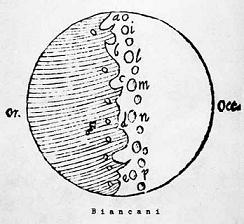 Map of the moon from Giuseppe Biancani: Sphaera mundi, seu cosmographia demonstrativa, ac facili methodo tradita (1615)